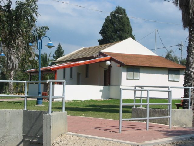 Ge'a synagogue